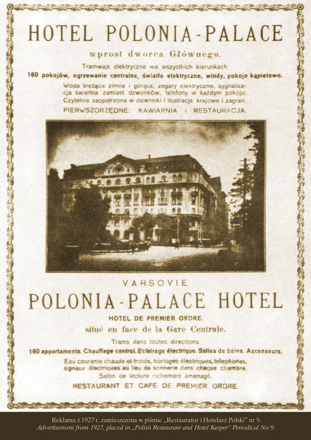 Reklama Hotelu Polonia z 1927